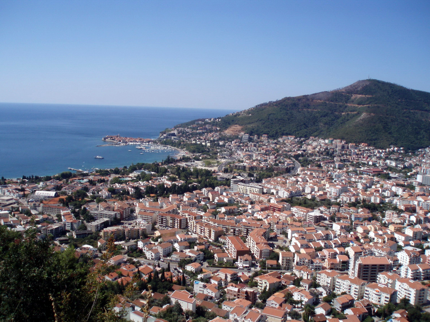 Budva, at the Adriatic